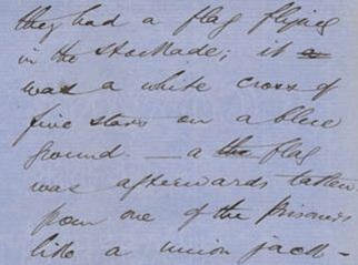 Photograph showing extract of an affidavit made by private Hugh King, 7 December 1854, made in relation to the committal hearings of the captured Eureka Stockade rebels.